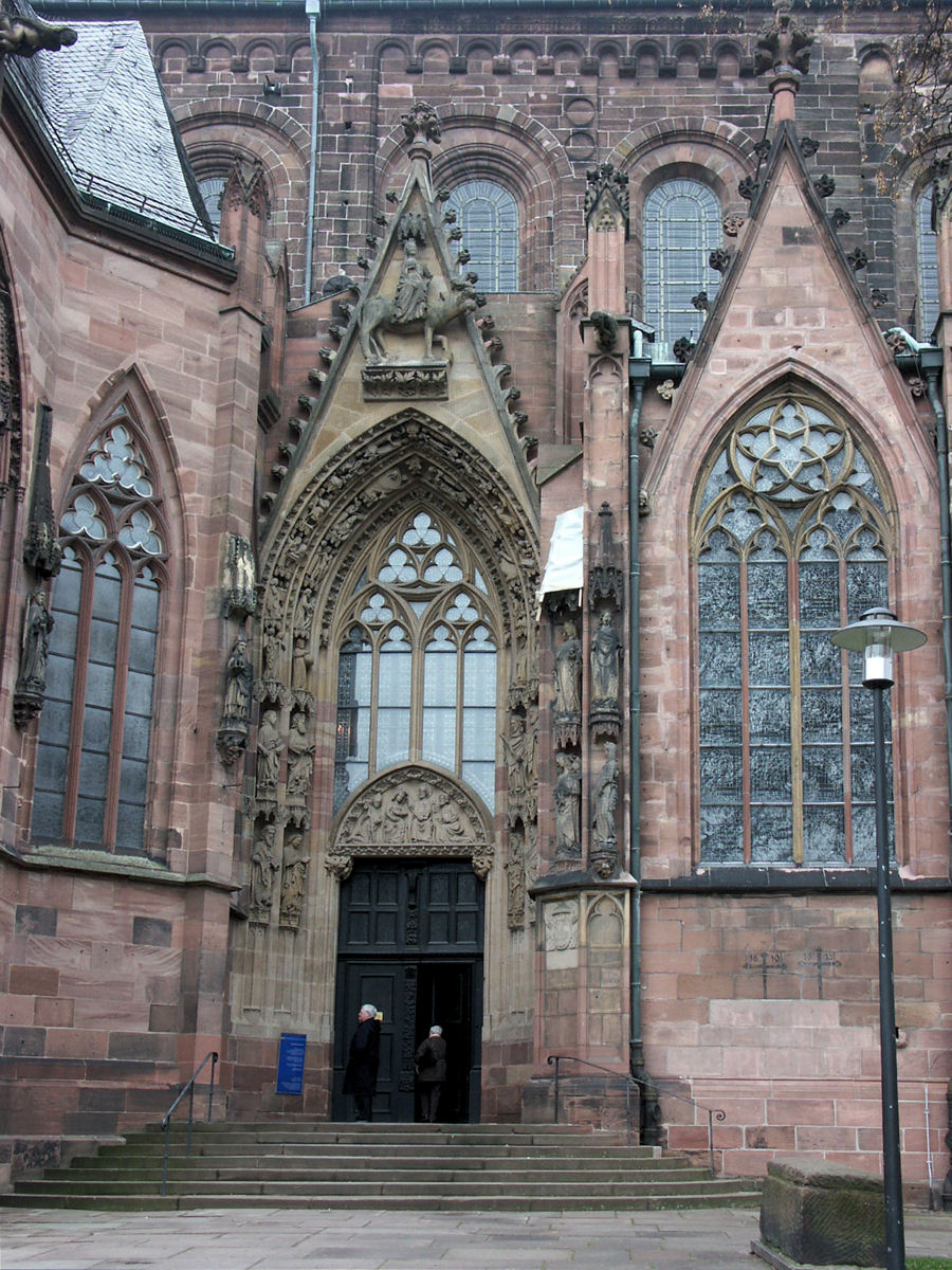 Cathedral St. Peter (Dom St. Peter), Worms, Germany